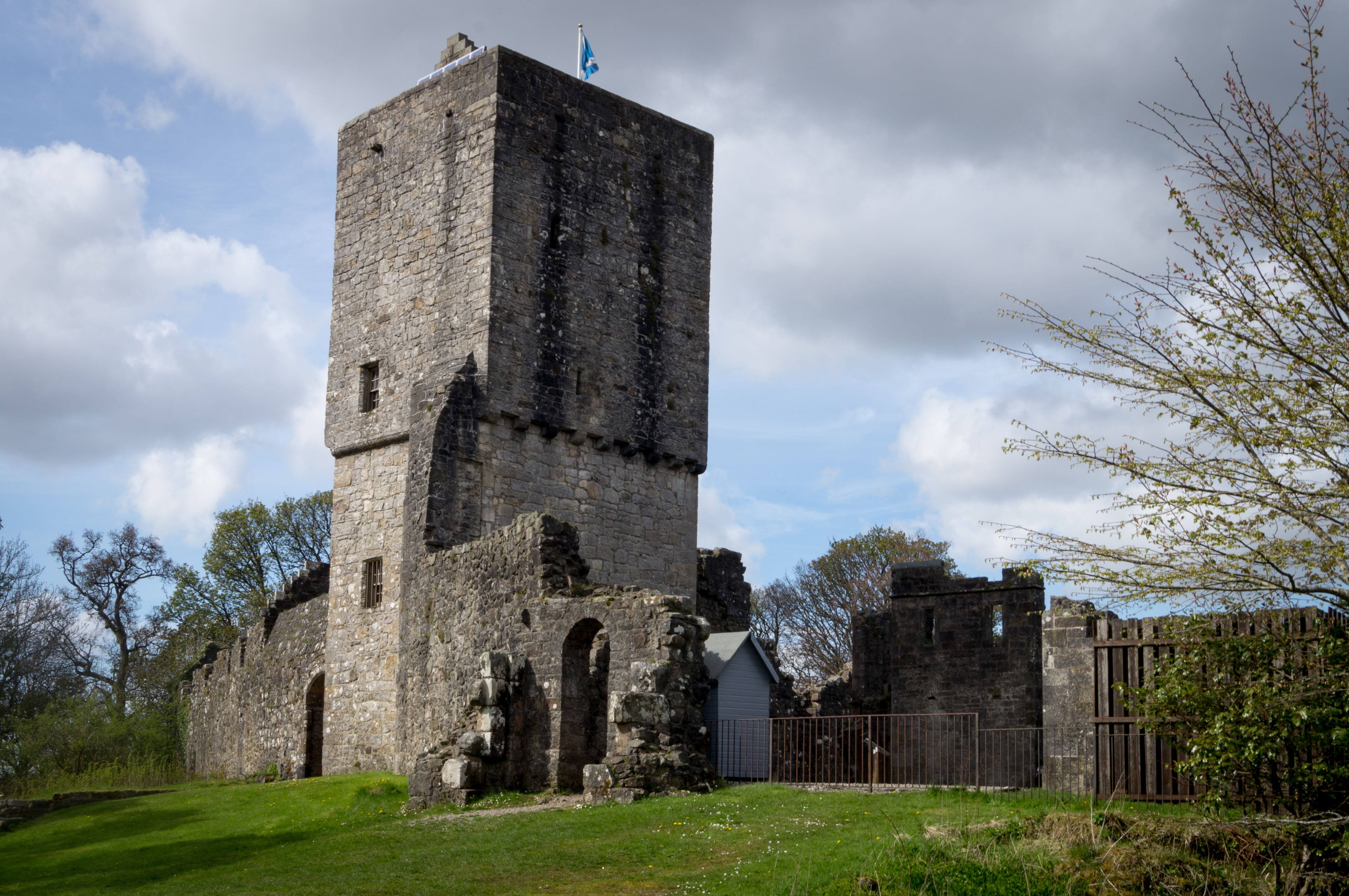 Mugdock Castle, General Wikidata has entry Q17567983 with data related to this item.